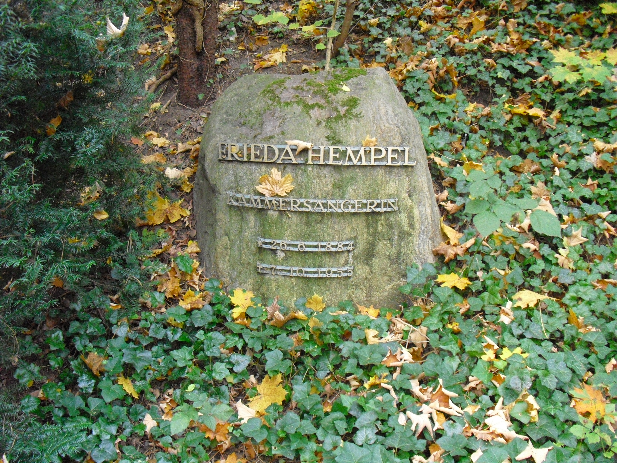 Grave of German opera singer Frieda Hempel in Friedhof Heerstraße in Berlin-Westend